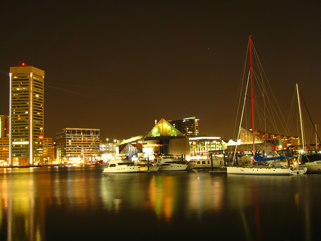 Baltimore Inner Harbor